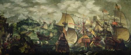 The Spanish Armada.